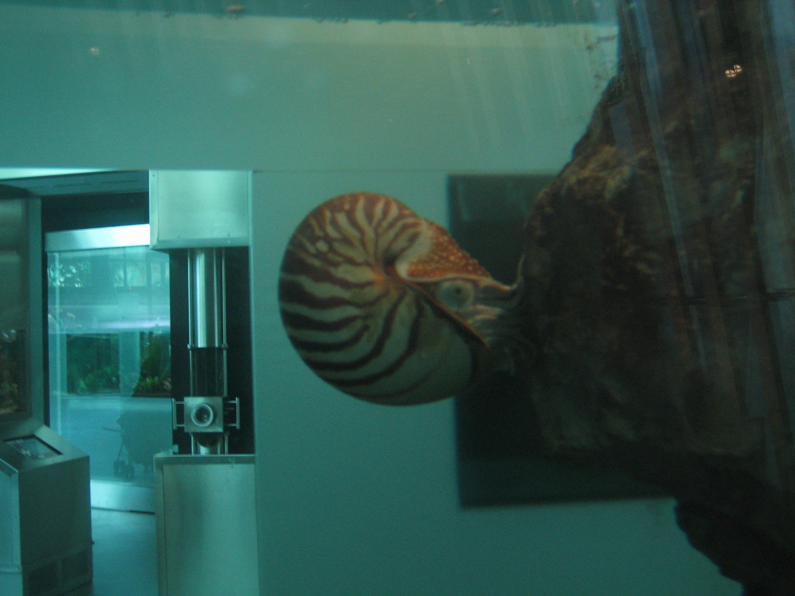 Nautilus in captivity, Cosmocaixa, Barcelona